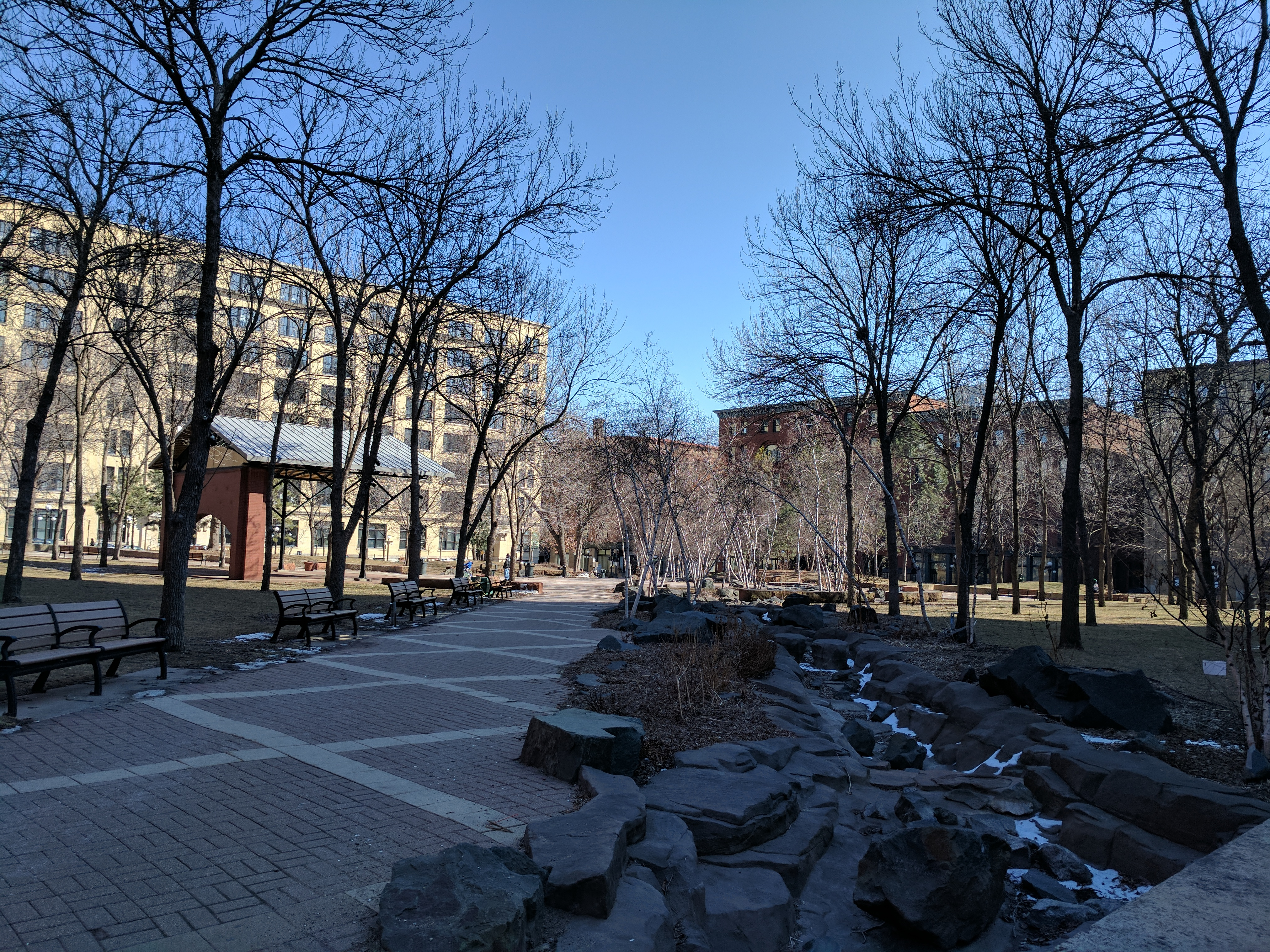 Image of Mears Park in Downtown Saint Paul. Mar 4, 2017.